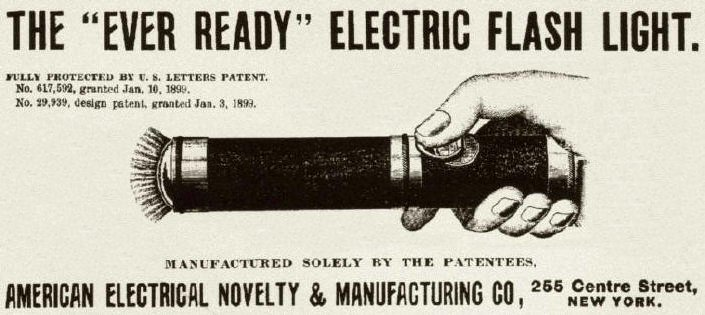 Ever Ready flashlight ad 1899